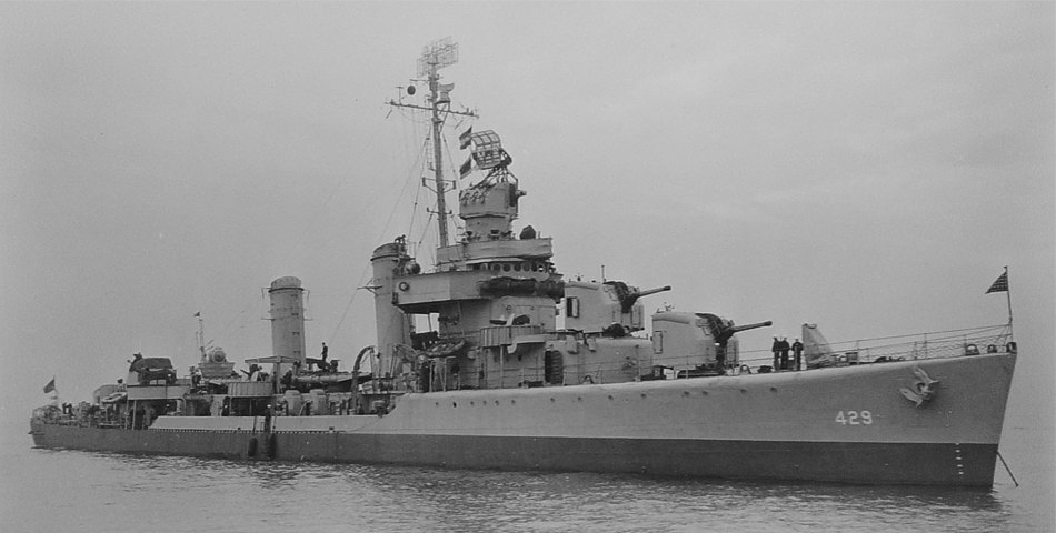 The U.S. Navy destroyer USS Livermore (DD-429), New York Navy Yard, 24 September 1943.